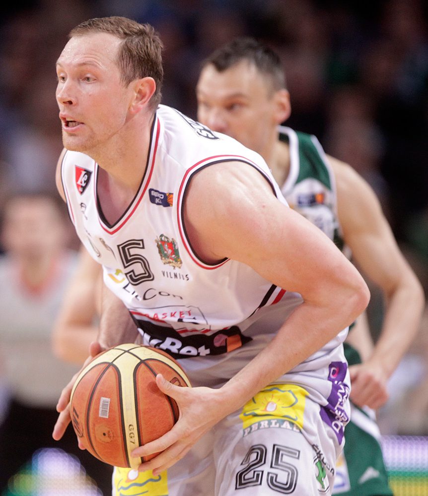 Lithuanian basketball player Darius Songaila